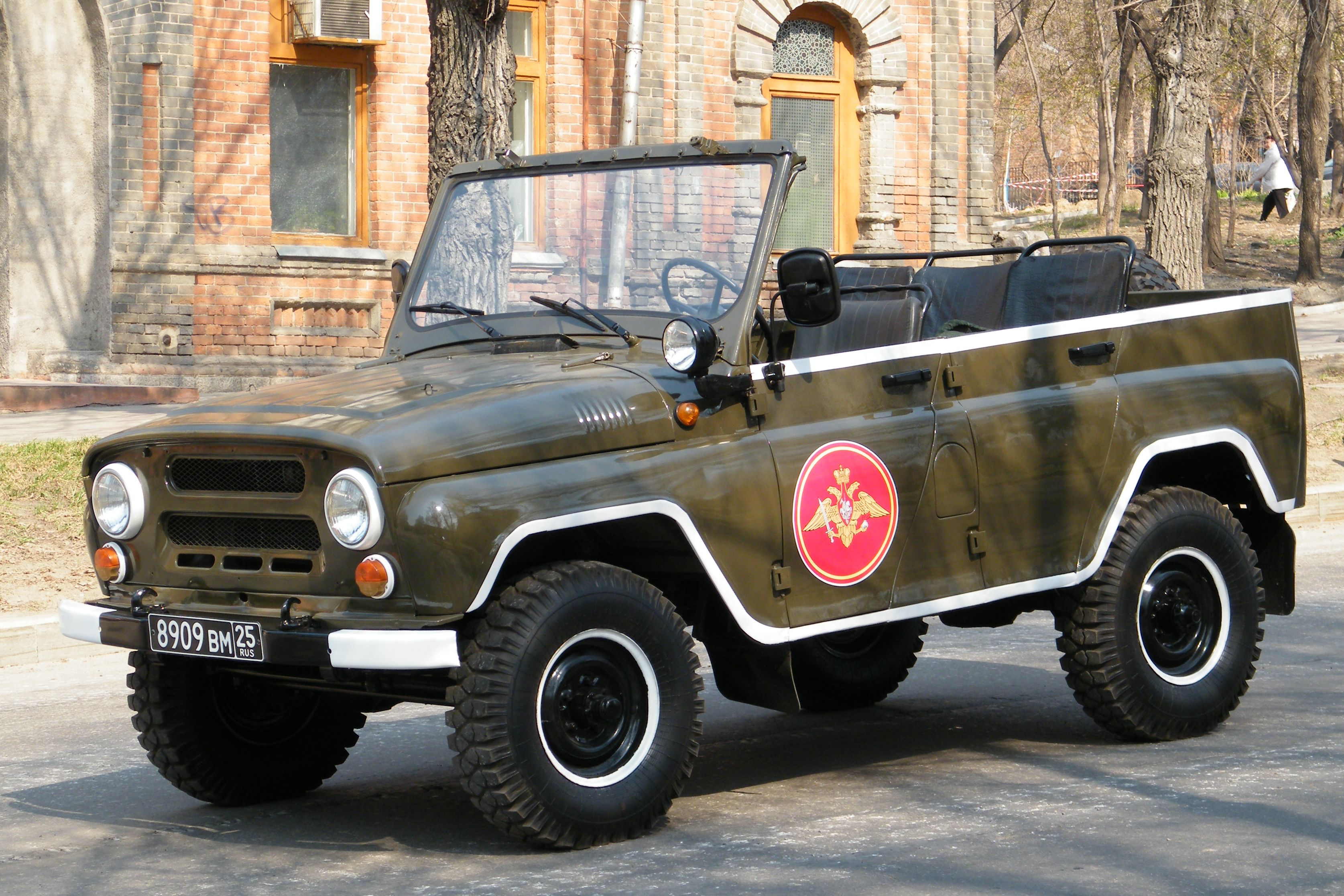 УАЗ-3151 на параде